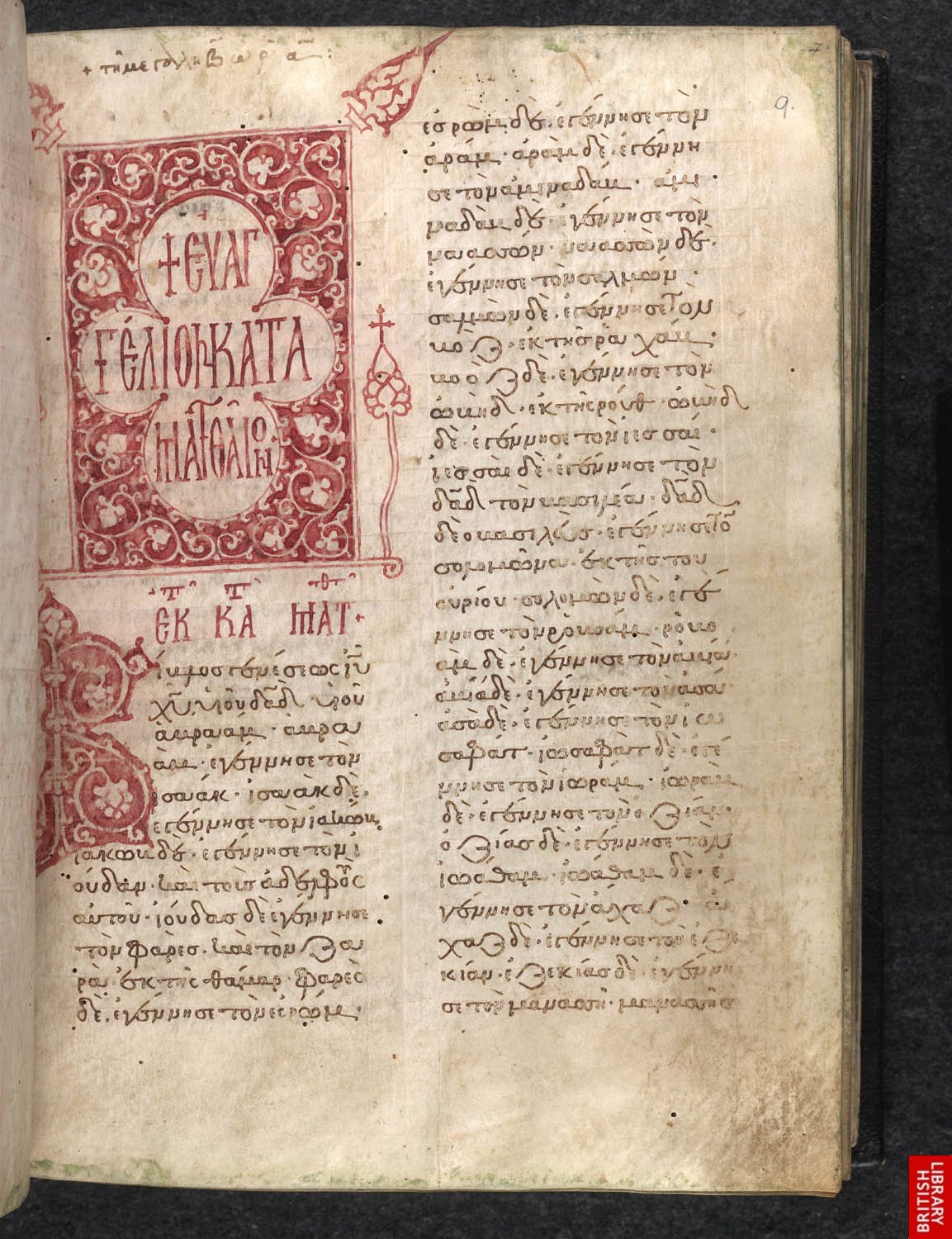 folio 9 of the codex; the beginning of the Gospel of Matthew